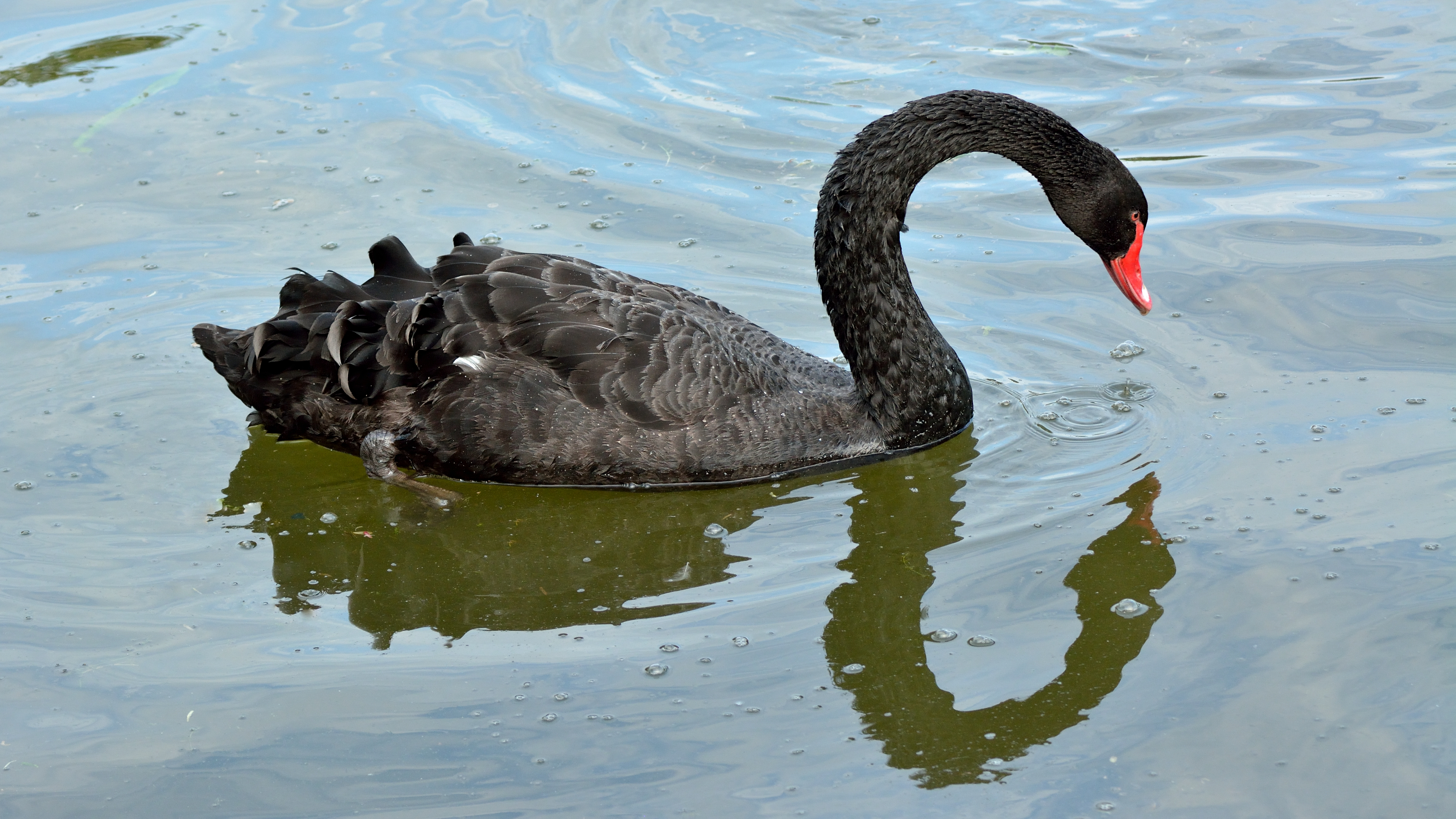 Black Swan (Cygnus atratus) in Kadrioru park.